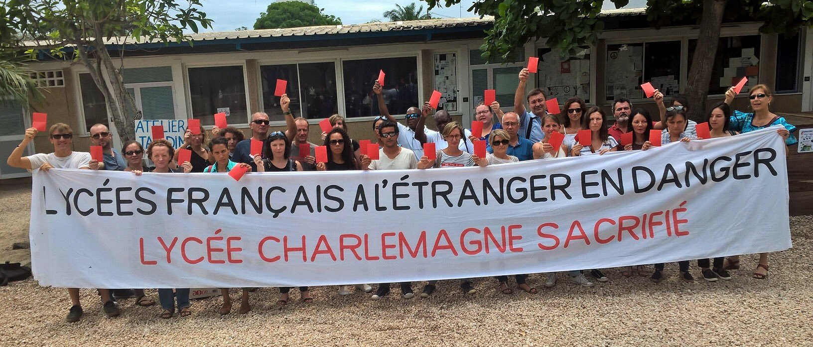 French international school on strike over planned cuts to budgets and staffing - February 6, 2018.